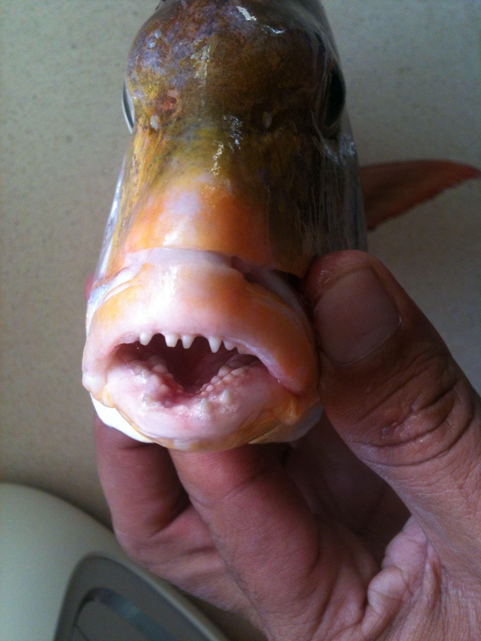 pagrus caeruleostictus (Bluespotted seabream) strong teeth used to crack clams & mussels. the yellow parts over his mouth indicate that the fish is a male in a reproduction mode. this fish is caught in the Mediterranean Sea, israel.